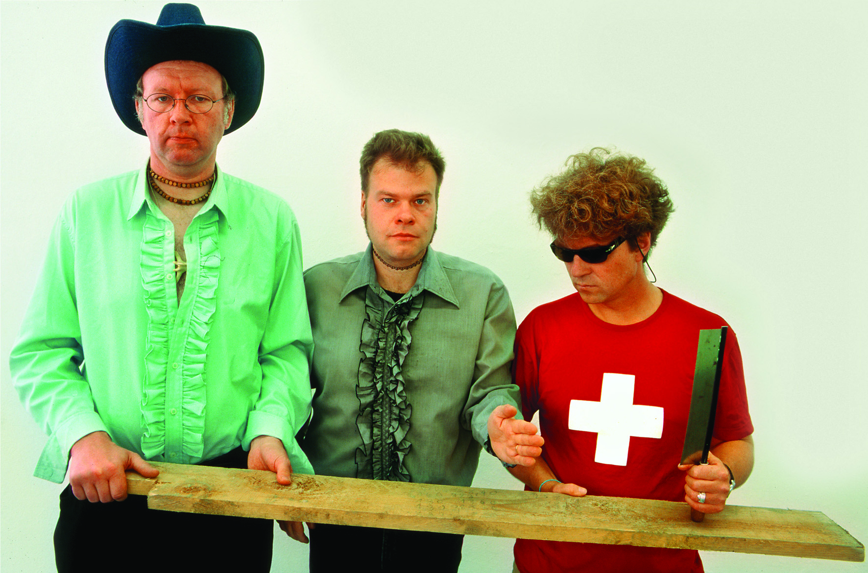 Die Weissenhofer - Carl, Keith @ Bob